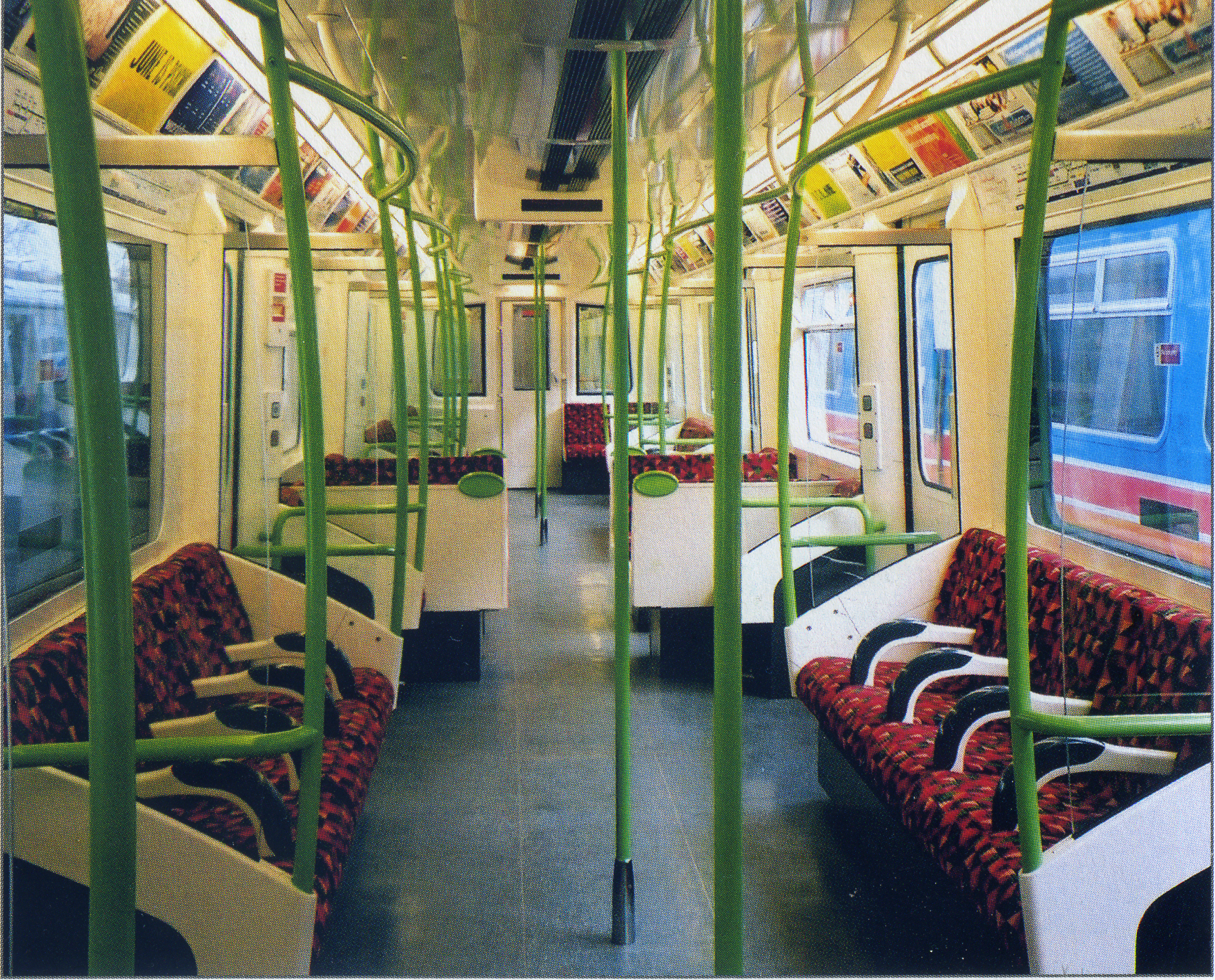 The interior of the prototype refurbished D78 Stock trailer car 17008